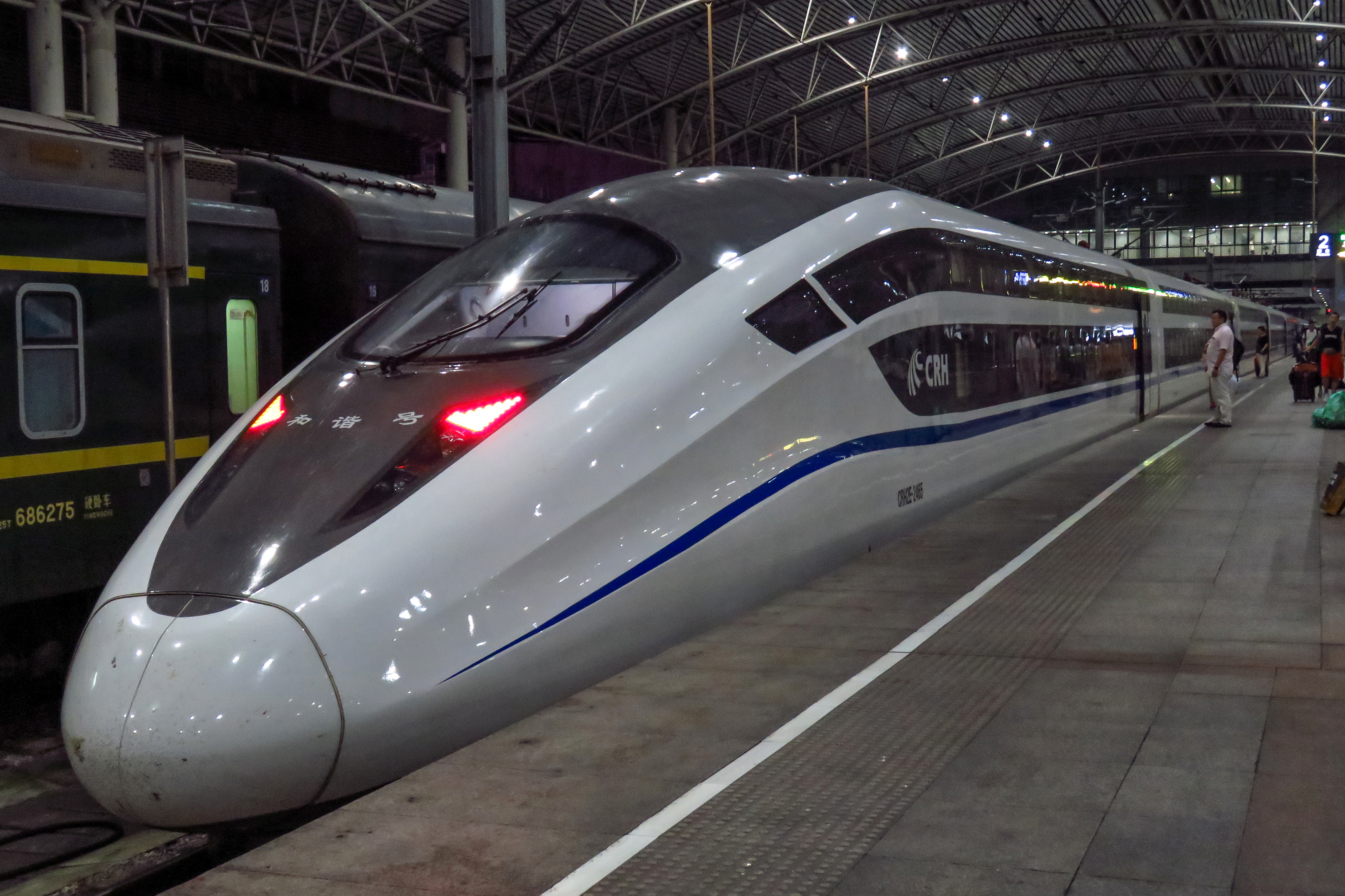 D312 to Beijing South. Uploaded at Nanjing Railway Station (?).